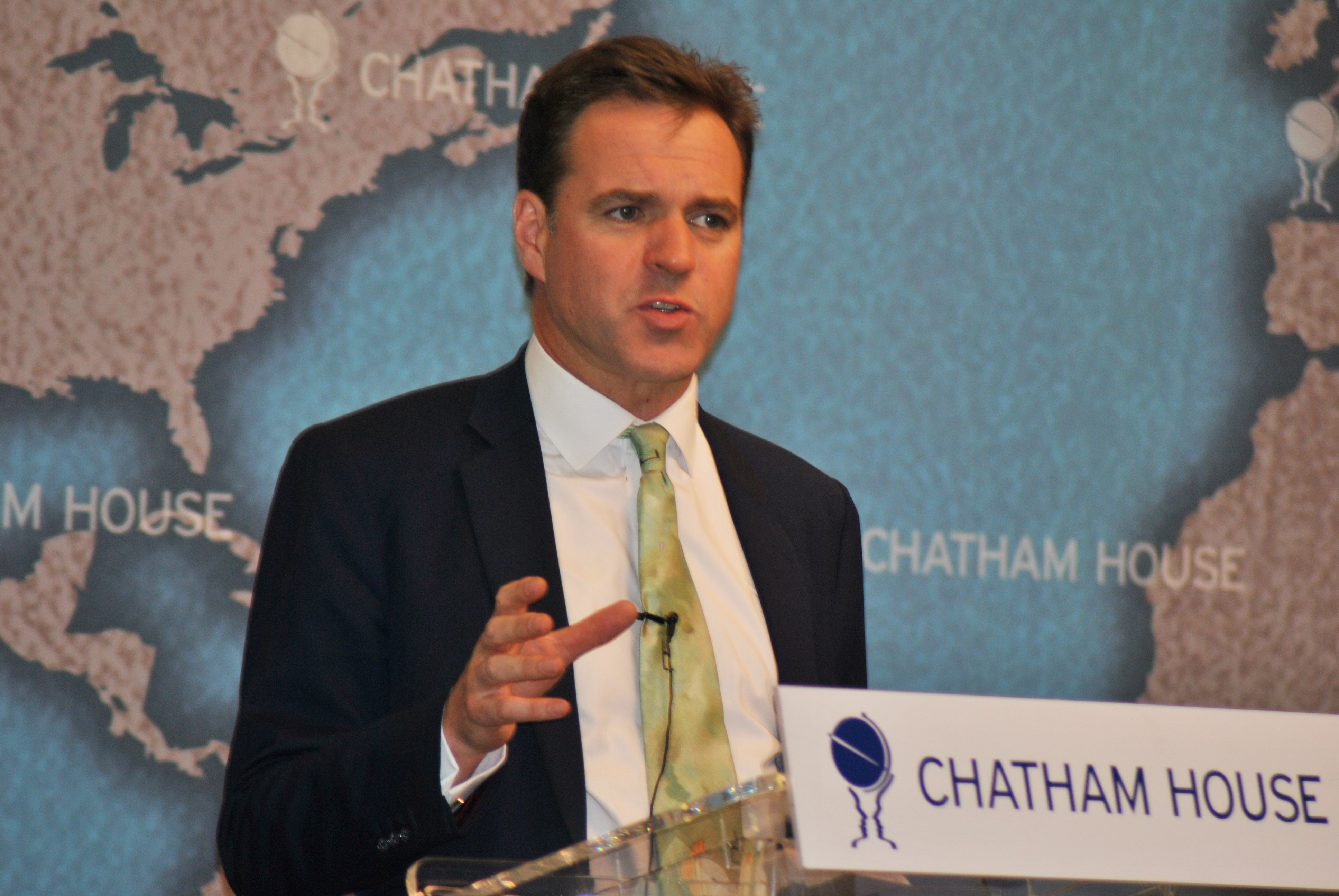 Niall Ferguson at a Chatham House event on 9 May 2011